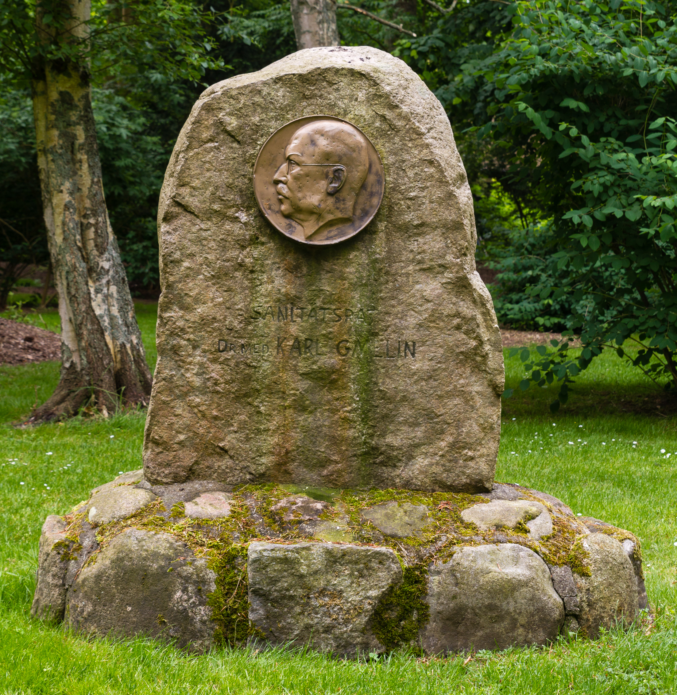 Designation: Spa gardens Location: Gmelinstraße House number: 25 Place: Wyk, Collective municipality Föhr-Amrum, District Nordfriesland, Schleswig-Holstein, Federal Republic of Germany Construction time: 1898 Description: The North Sea spa gardens was created by Dr. Carl Gmelin as wind protection and recreational offer for the sanatorium guests, architect: August Endell. Redesign from 1900, since 1983 in the possession of the town Wyk. Memorial stone for Dr. Carl Gmelin. Object identification: 4048